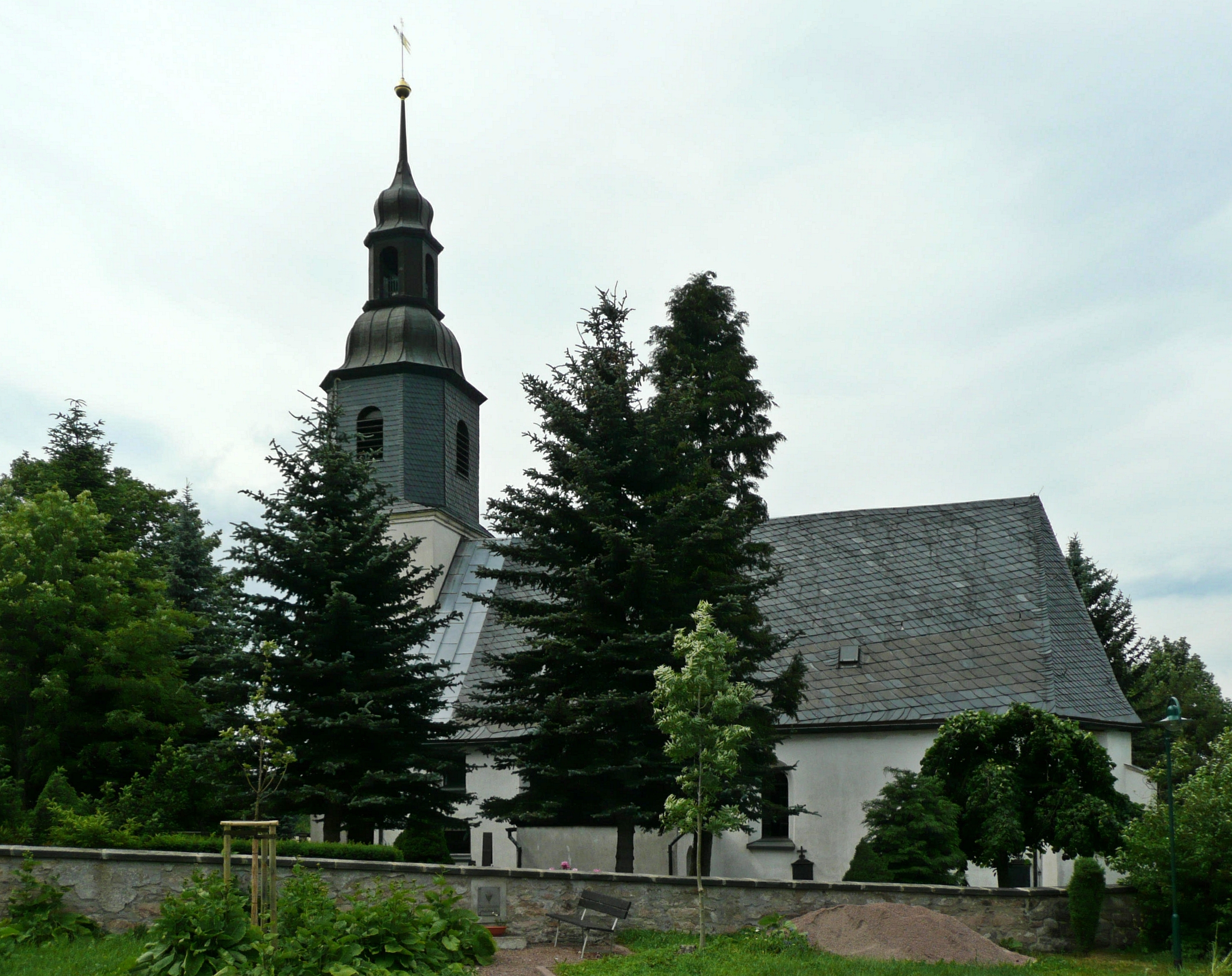 This image shows the evangelic church (built 1591/93) in Schellerhau near Altenberg in the Ore Mountains in Saxony, Germany.